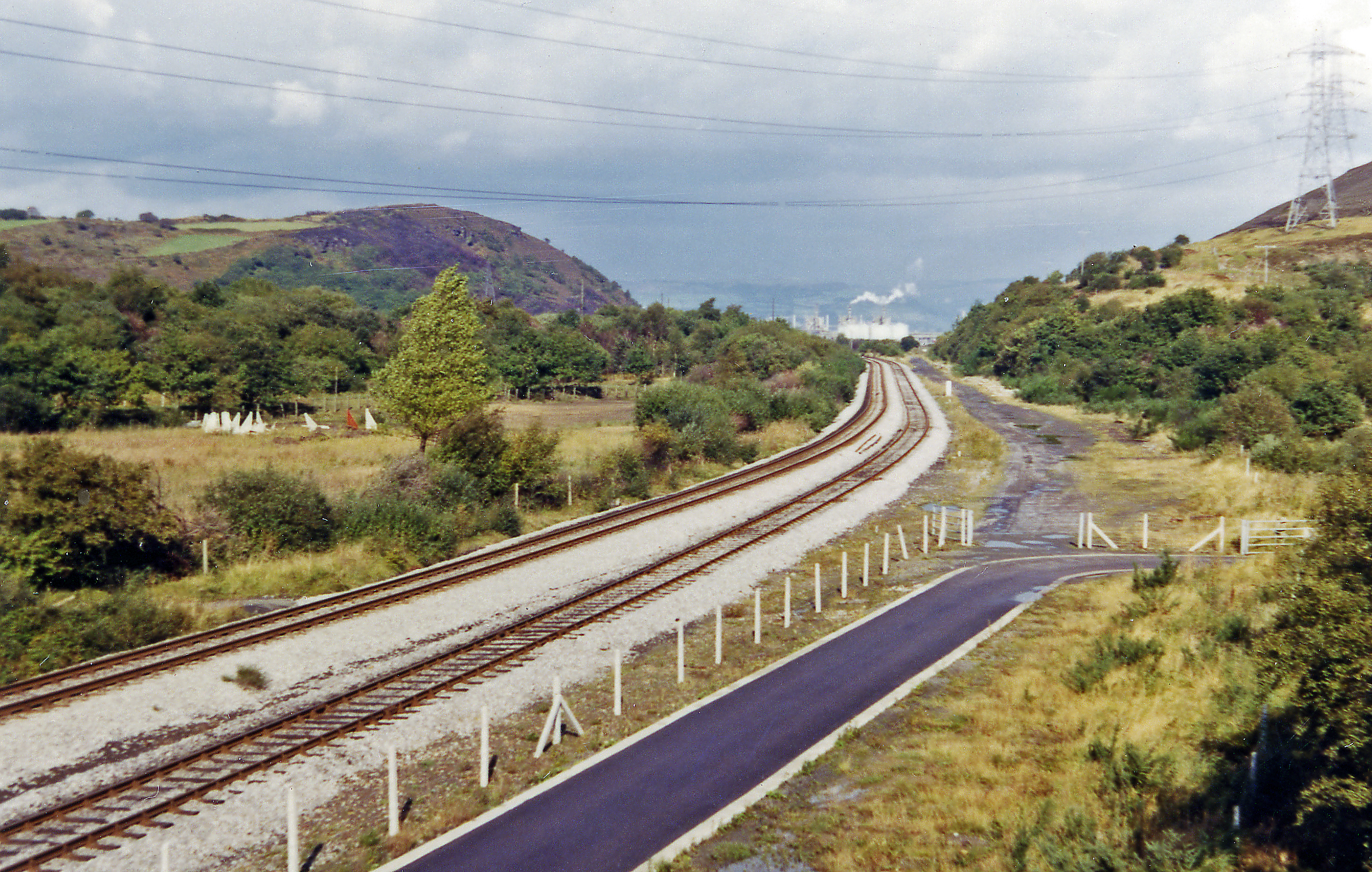 Site of Briton Ferry Road station, 1973. View eastward from the B4290 bridge, towards Neath. The extant lines are those to Swansea Burrows Sidings and formerly Swansea East Dock, on which the station was situated until the passenger service from Neath (Low Level) operated until 28/9/36. On the nearer side, where the track has been lifted, there used to be Jersey Marine station (closed 11/9/33 to passengers) on the ex-Rhondda & Swansea Bay Railway from Swansea Dockside (later Danygraig) to Court Sart (and Neath), Aberavon and Cymmer to Treherbert, freight traffic on which continued along here until 12/67. Over on the left is the Tennant Canal and hidden by the hill is the vast Llandarcy Oil Refinery.